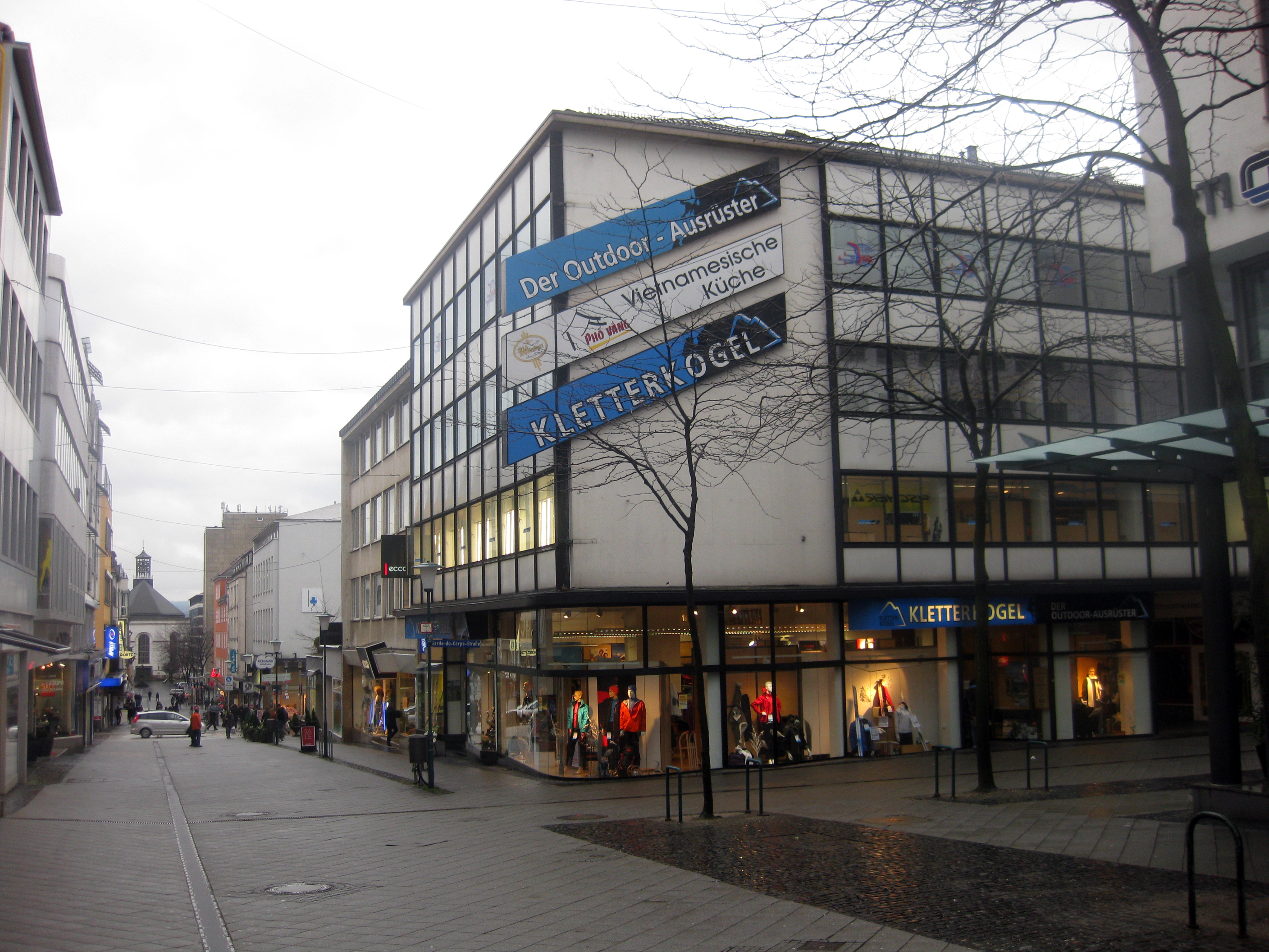 Wilhelmstraße in Kassel